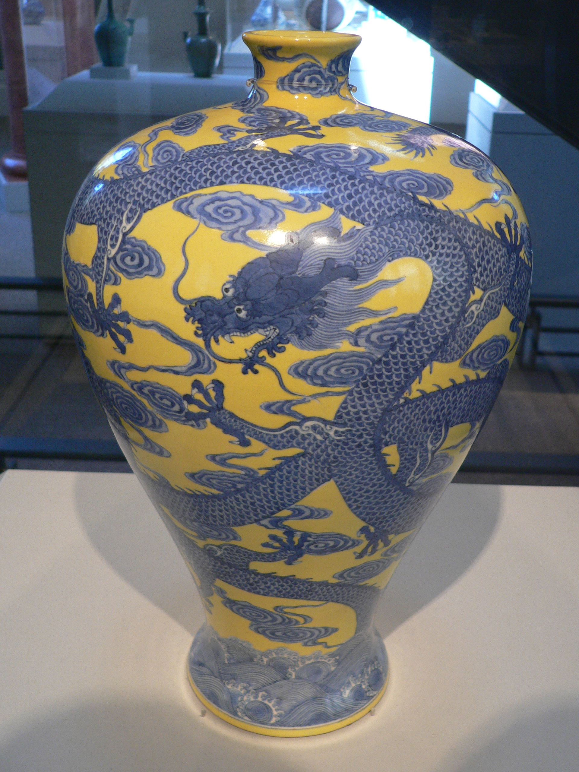 China, Qing Dynasty Qianlong period (1736-1796) Vase (meiping) Porcelain and enamel has been attributed to Tang Ying Stanford Family Collections, 9032